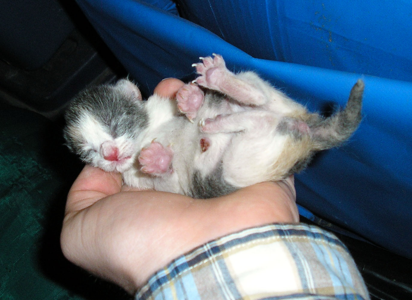 A newborn kitten, about three hours old. Self-made picture, cropped from original, released in PD.